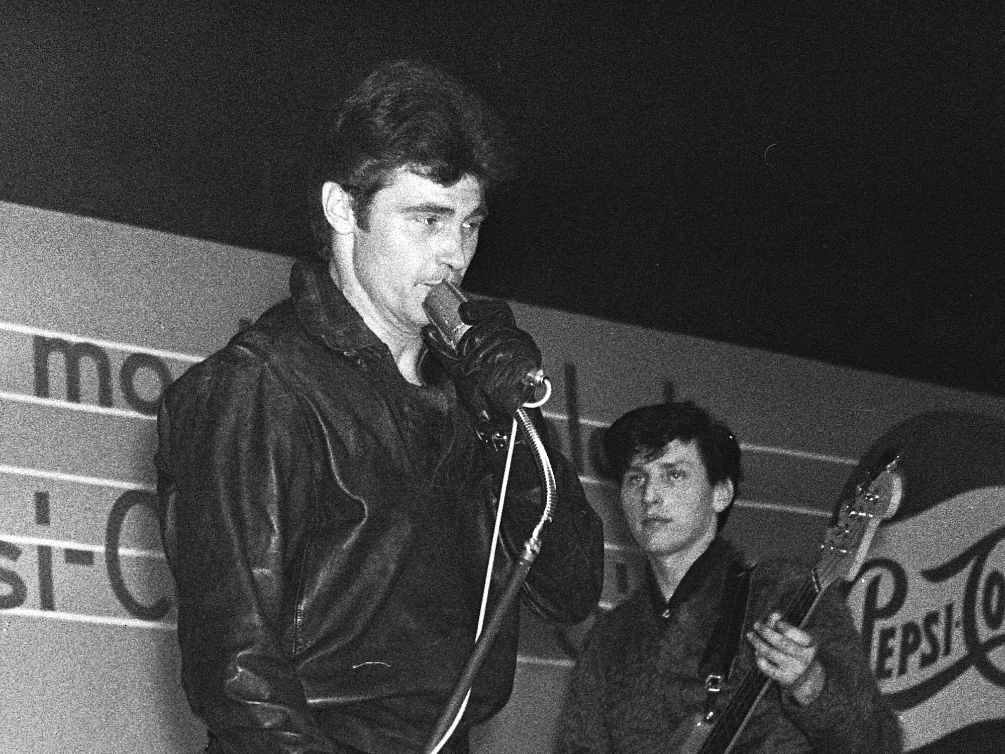 Vince Taylor performing in Blokker (the Netherlands), 23 May 1963. Right: possibly bass player Douggie Reece or Johnny Vance (=David John Cobb)?